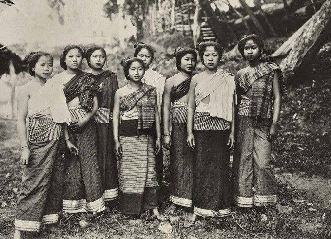 Lao women wearing xout lao, including sinh and pha biang.